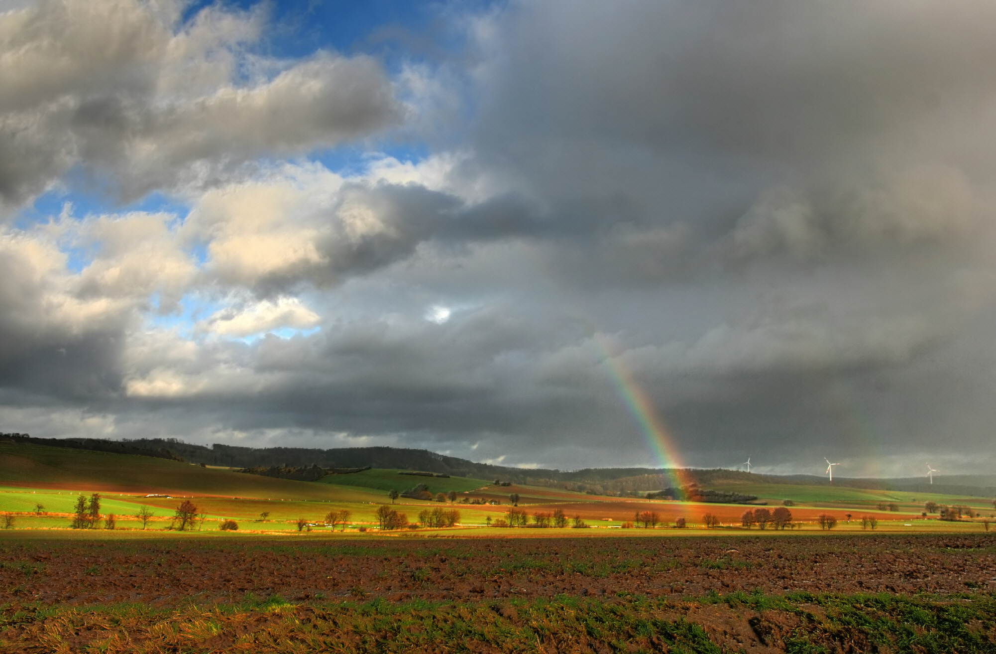 Regenbogen im Weserbergland östlich der Ortschaft Börry